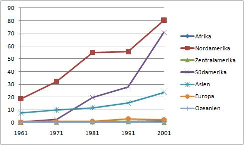 world production of soybeans 1961-2001 (in German)